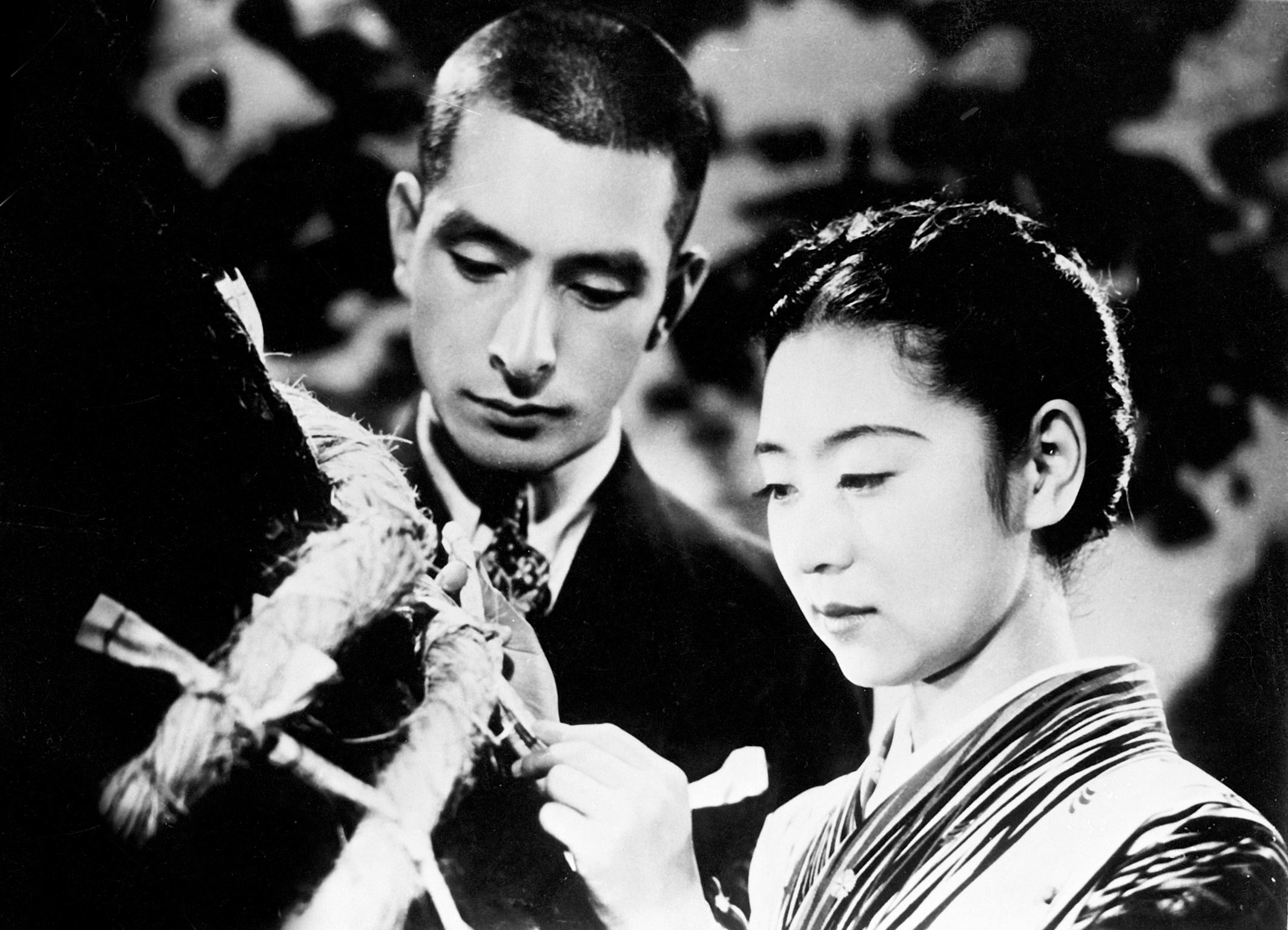 Ken Uehara and Kinuyo Tanaka in Aizen katsura (愛染かつら) directed by Hiromasa Nomura (1938)